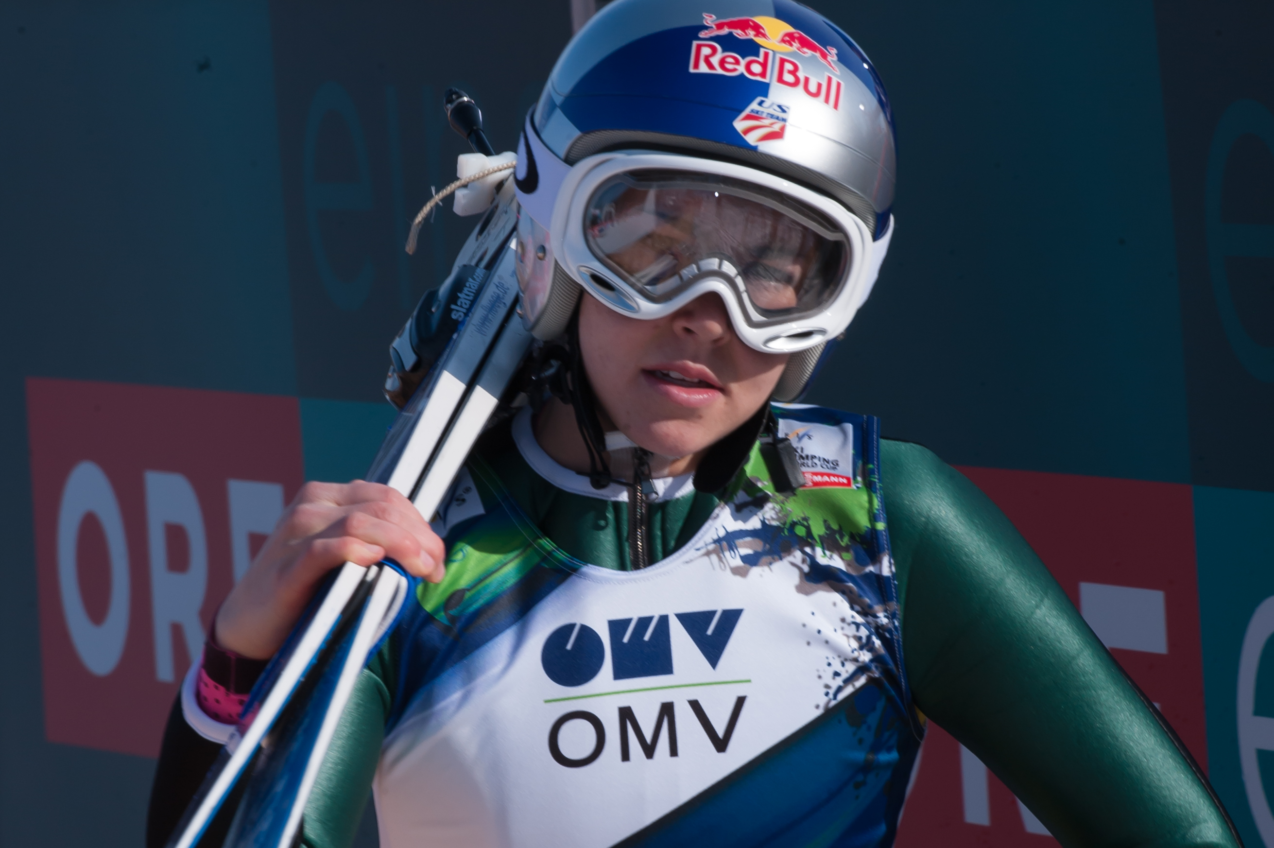 FIS Ski Jumping World Cup Hinzenbach Sun 1 Feb 2015